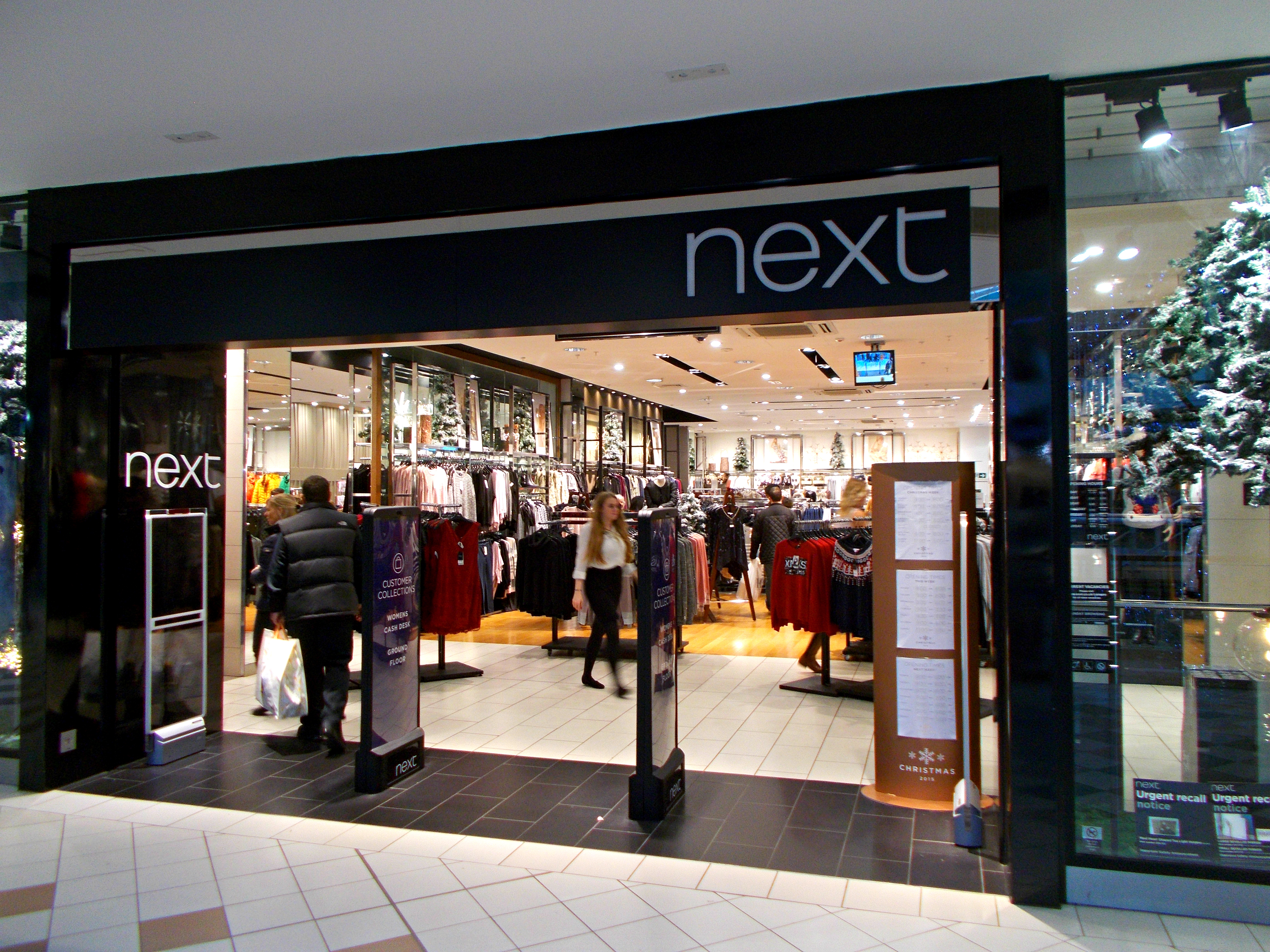 Sutton is 10 miles from central London